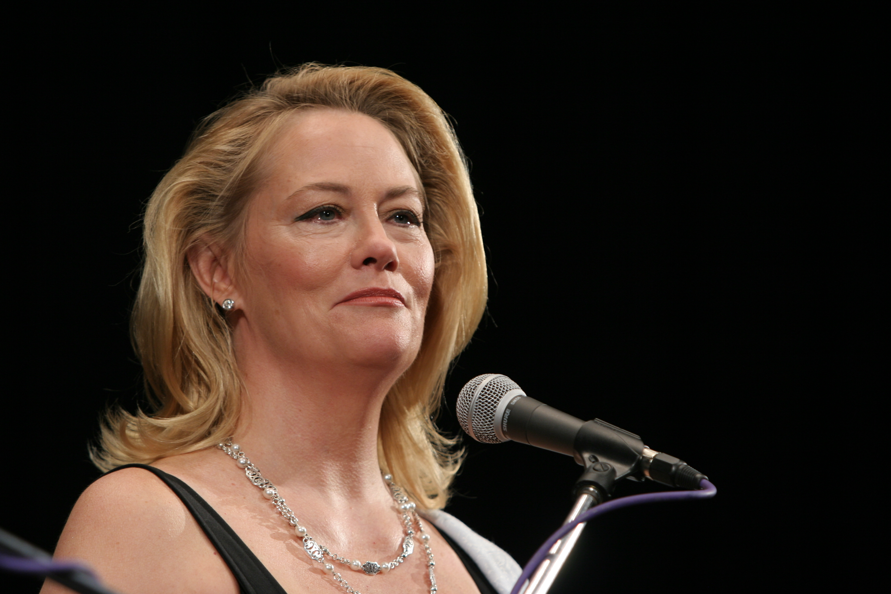 Cybill Shepherd at 42nd Karlovy Vary International Film Festival